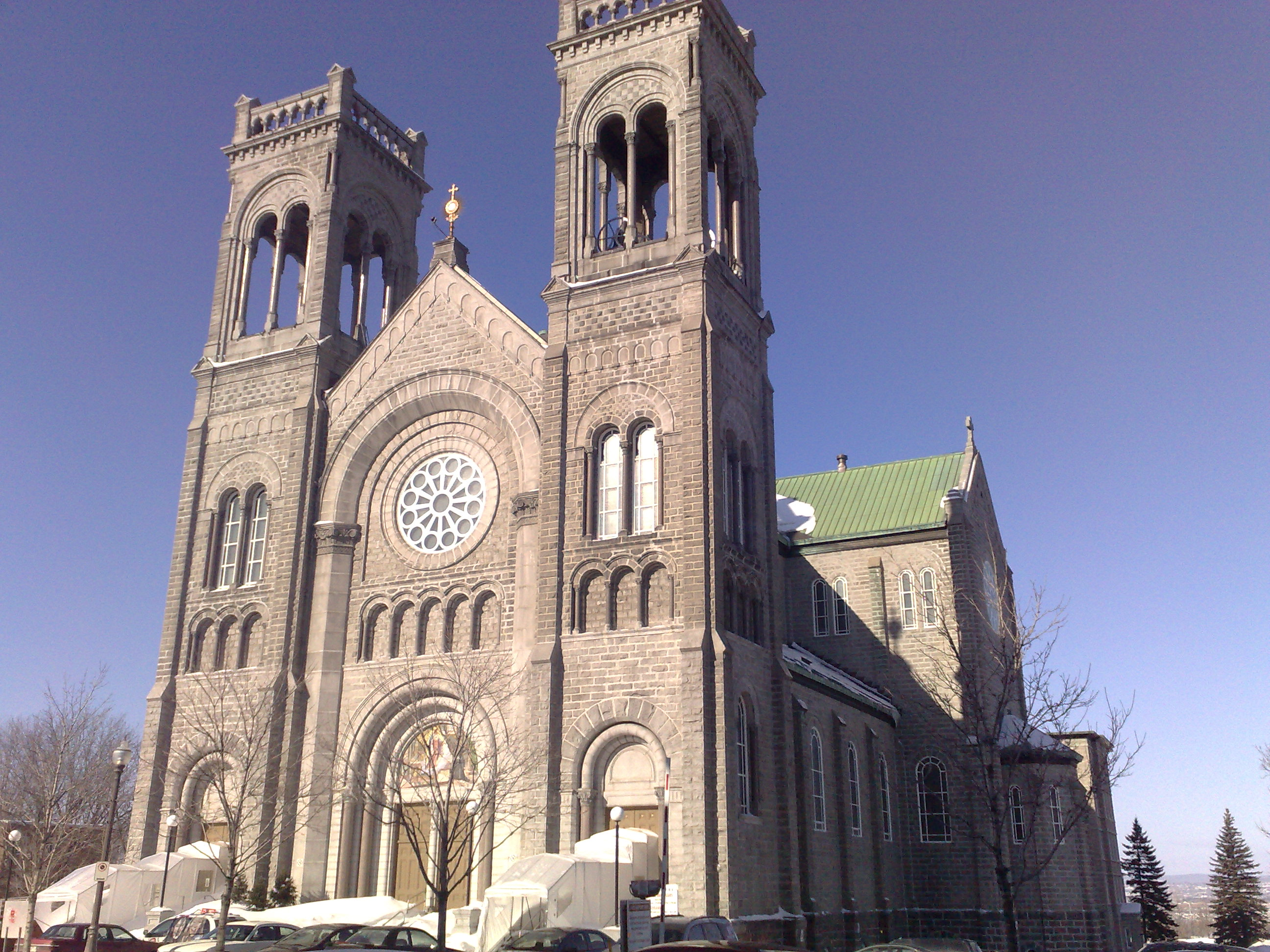 Church of the Blessed Sacrament, Quebec City, Quebec, Canada.